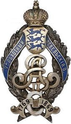 Badge of Revelsky 7-th Regiment